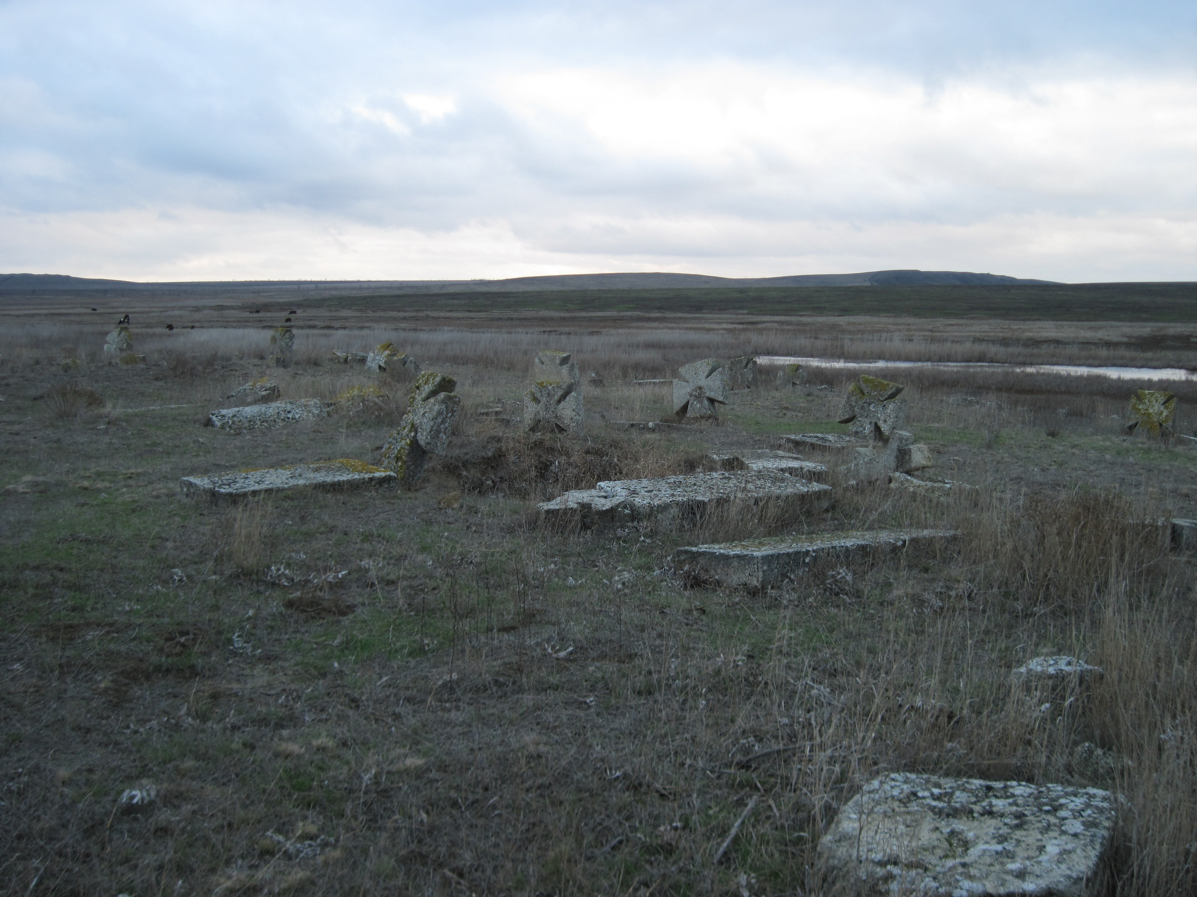 Cemetery of the village disappeared Rybnoe, Leninsky region, Crimea